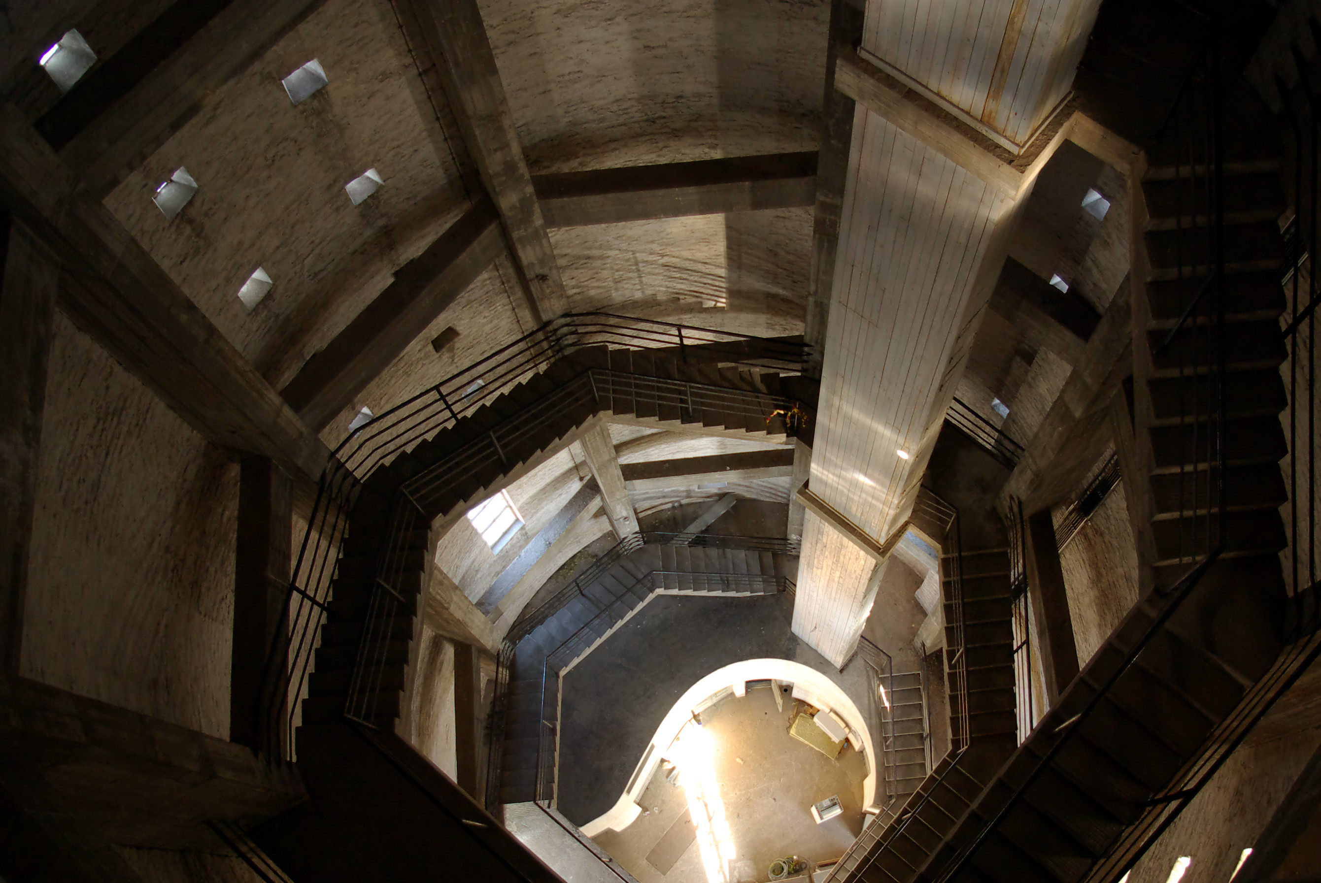 Interior of Jakobstad water tower, Finland